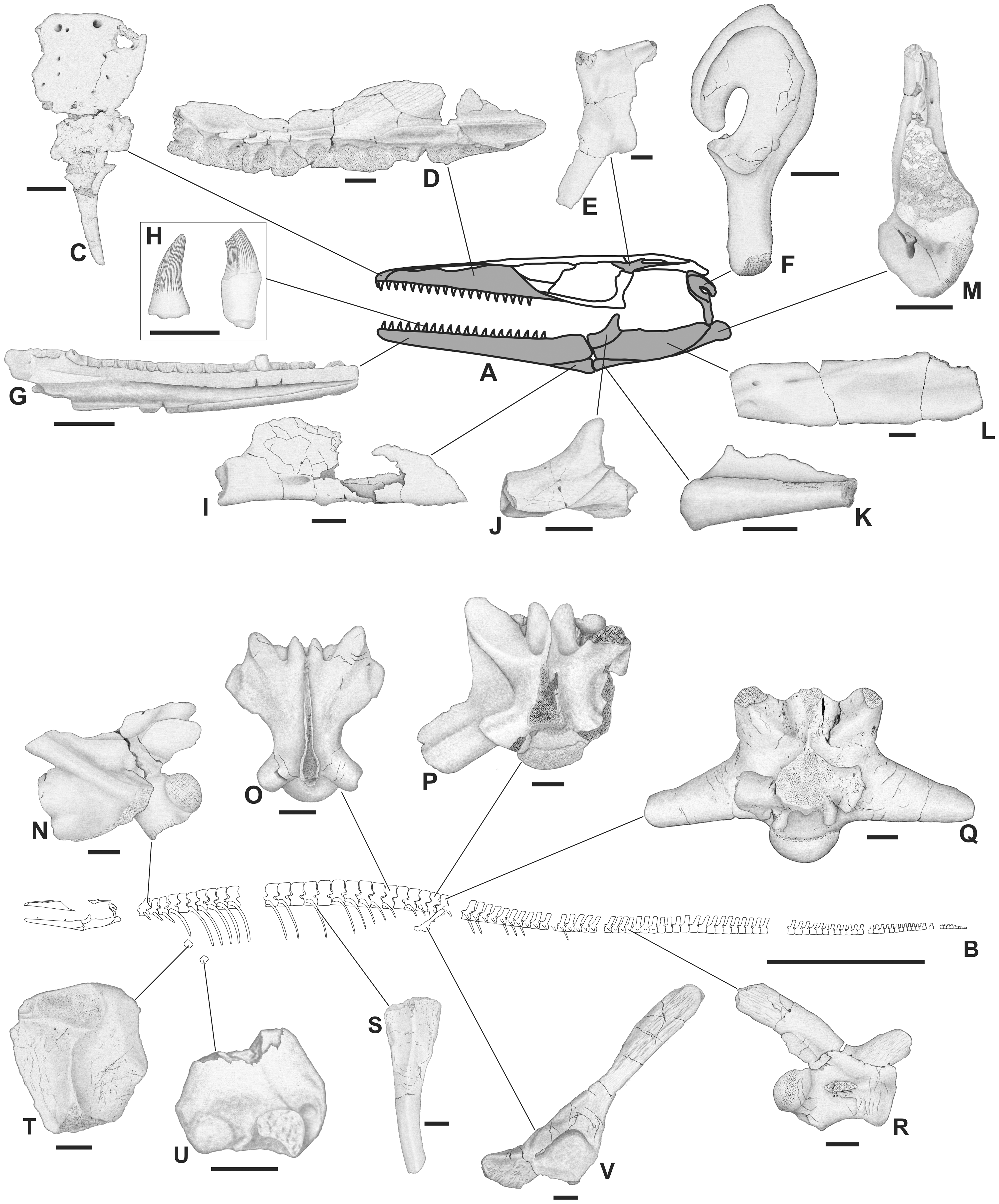 Skeletal anatomy of Pannoniasaurus inexpectatus. A: skull drawing shows known elements in grey. B: skeletal reconstruction showing preserved bones in white. C: premaxilla (MTM 2007.25.1.) in dorsal view. D: right maxilla (MTM 2007.29.1.) in lingual view. E: left postorbitofrontal (MTM 2007.28.1.) in dorsal view. F: right quadrate (MTM 2011.43.1.) in lateral view. G: left dentary (MTM 2007.37.1.) in lingual view. H: isolated teeth without and with base preserved. I: left splenial (MTM 2011.41.1.) in lingual view. J: right coronoid (MTM 2007.23.1.) in lingual view. K: left angular (MTM 2007.36.1.) in labial view. L: right surangular (MTM 2007.30.1.) in labial view. M: left articular (MTM 2007.39.1.) in dorsal view. N: mid-cervical vertebra (MTM V.01.149.) in lateral view. O: dorsal vertebra (MTM V.01.222.) in dorsal view. P: first sacral vertebra (MTM Gyn/122.) in dorsal view. Q: second sacral vertebra (MTM Gyn/121.) in dorsal view. R: anterior caudal vertebra (MTM Gyn/104.) in lateral view. S: rib fragment (MTM 2007.89.1.) in dorsolateral view. T: proximal end of left humerus (MTM 2007.42.1.) in flexor view. U: distal end of right humerus (MTM 2011.42.1.) in flexor view. V: left ilium (MTM 2007.40.1) in lateral view. All known elements of Pannoniasaurus are isolated bones from multiple individuals and many are known as multiple specimens but only one is figured. Vertebrae and ribs not figured in (B) symbolize that no complete series has been found. Scale bars represent 1 cm (A, C-V) and 1 meter (B).